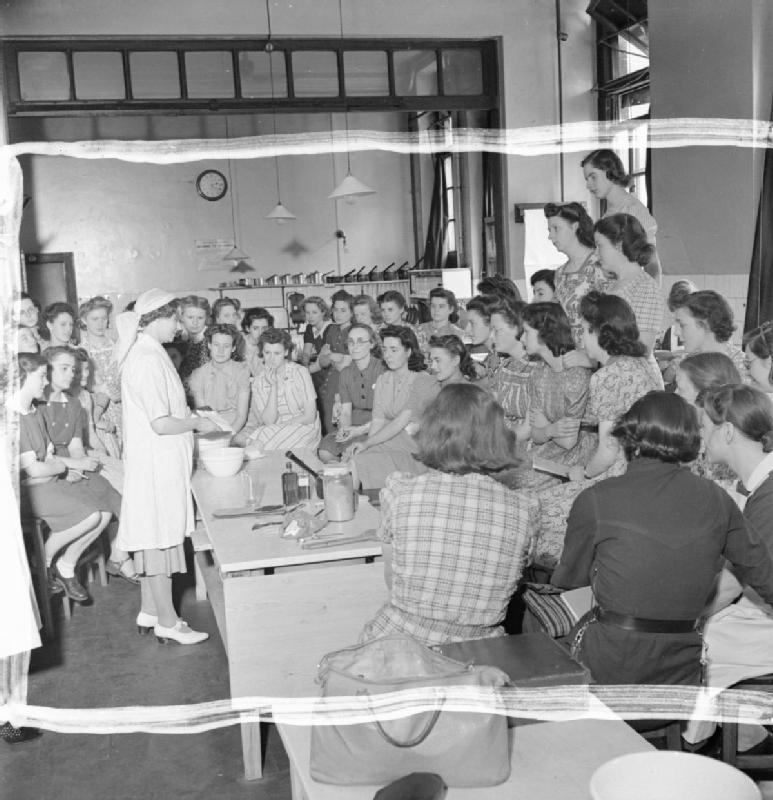 Schoolgirl Into Nurse- Medical Training in Britain, 1942 Girls in their last year of school learn 'the delicate art of poulticing' as part of their pre-nursing training. The photograph shows a large class of young women listen as a nurse demonstrates how to make a poultice during a lecture in the school kitchen.